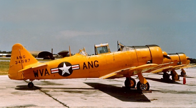 A U.S. Air Force North American T-6G Texan (s/n 53-4587) of the 167th Fighter Squadron, West Virginia Air National Guard. The 167th flew the T-6G from 1947 to 1957.